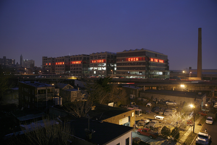 Indestructible Language was a 2007 project by artist Mary Ellen Carroll and the inaugural commission for the Precipice Alliance, the first international organization commission high-profile, large-scale works of art on the subject of global warming. The project was located at the former American Can Company factory in Jersey City, New Jersey and consists of illuminated characters together reading: "IT IS GREEN THINKS NATURE EVEN IN THE DARK."